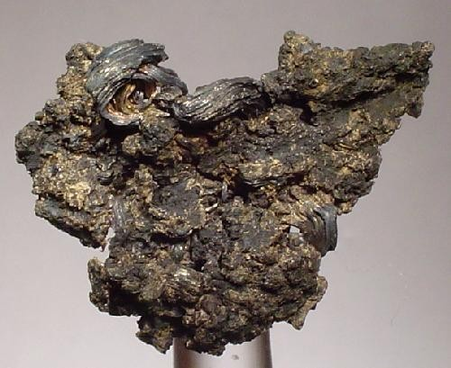 Silver Locality: Silver King Mine (Silver King Mining County property; Fortune Mine; California Mine; White Horse Mine; Seventy-Four Mine; Last Chance Mine), Comstock Wash, Kings Crown Peak area, Pioneer District, Pinal Mts, Pinal County, Arizona, USA (Locality at ) Size: 2.9 x 2.3 x 1.1 cm. A CLASSIC, OLD-TIME and rich Arizona specimen of thick curled silver wires on a matrix of solid silver from the famous Silver King Mine, near Superior. The piece is nicely burnished with acanthite. The Silver King Mine was discovered in 1873 and was depleted by 1888! A fine piece for the Arizona, locality or elements collector. Ex. George Elling Collection.